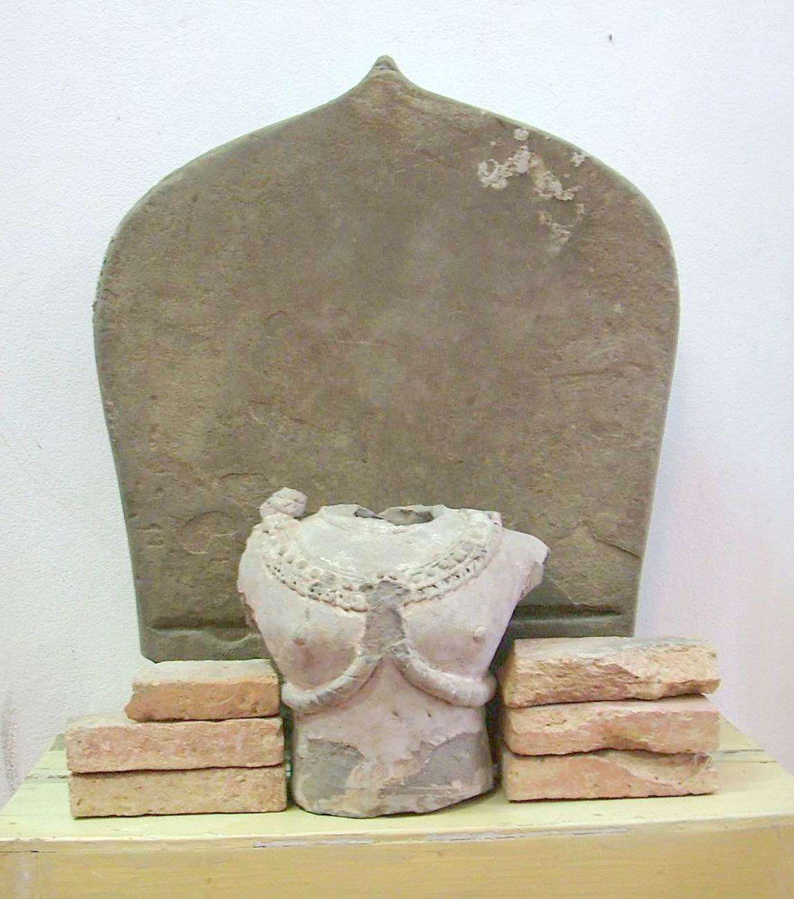 เสมาหิน